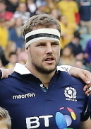 2017.06.17.15.04.41-Flower Of Scotland anthem-0001 The 2017 mid-year rugby union international, 17 June 2017, Australia vs Scotland at Allianz Stadium, Sydney